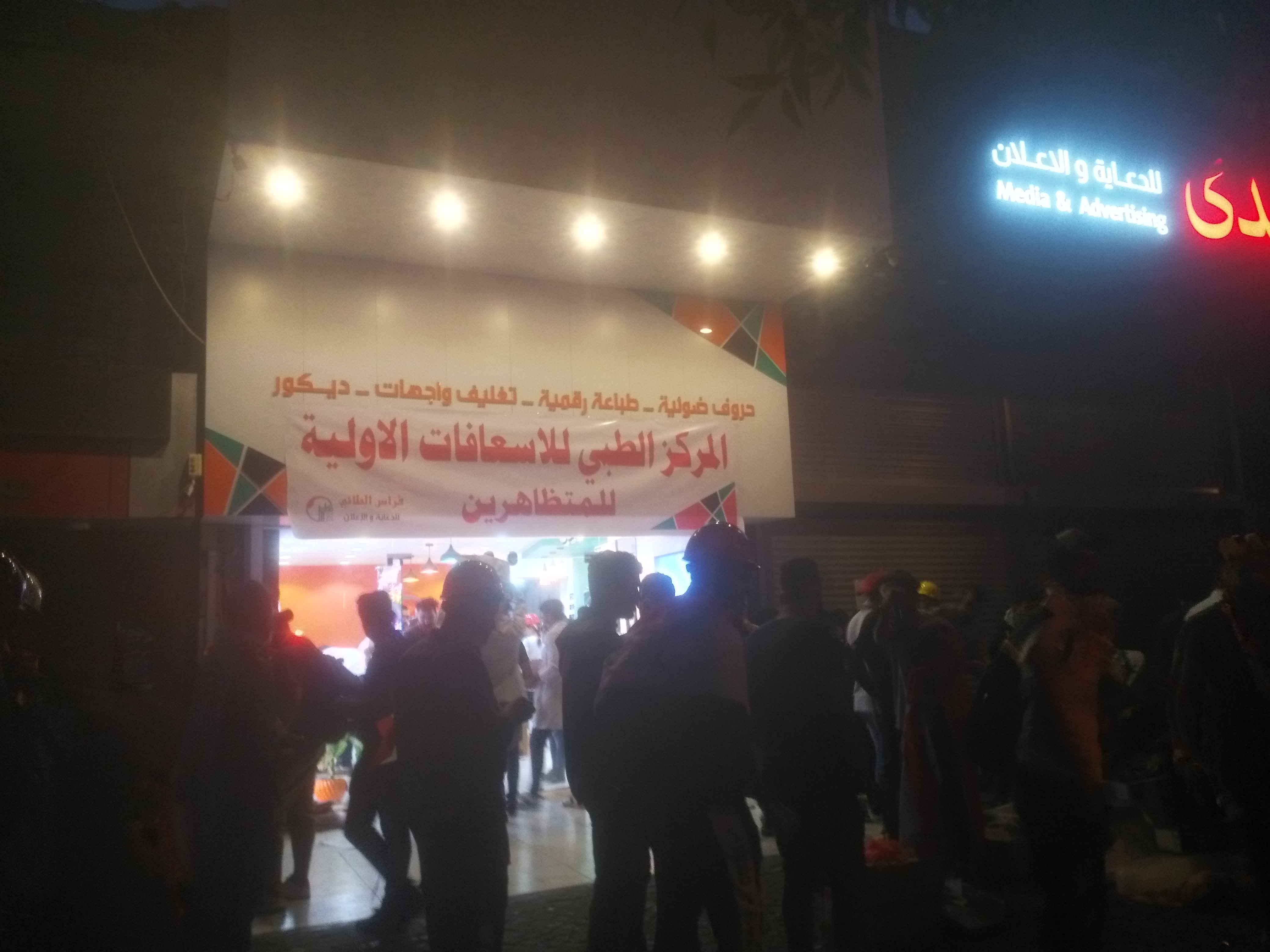 Medical center for first emergencies to heal protesters in the sa'doon streen